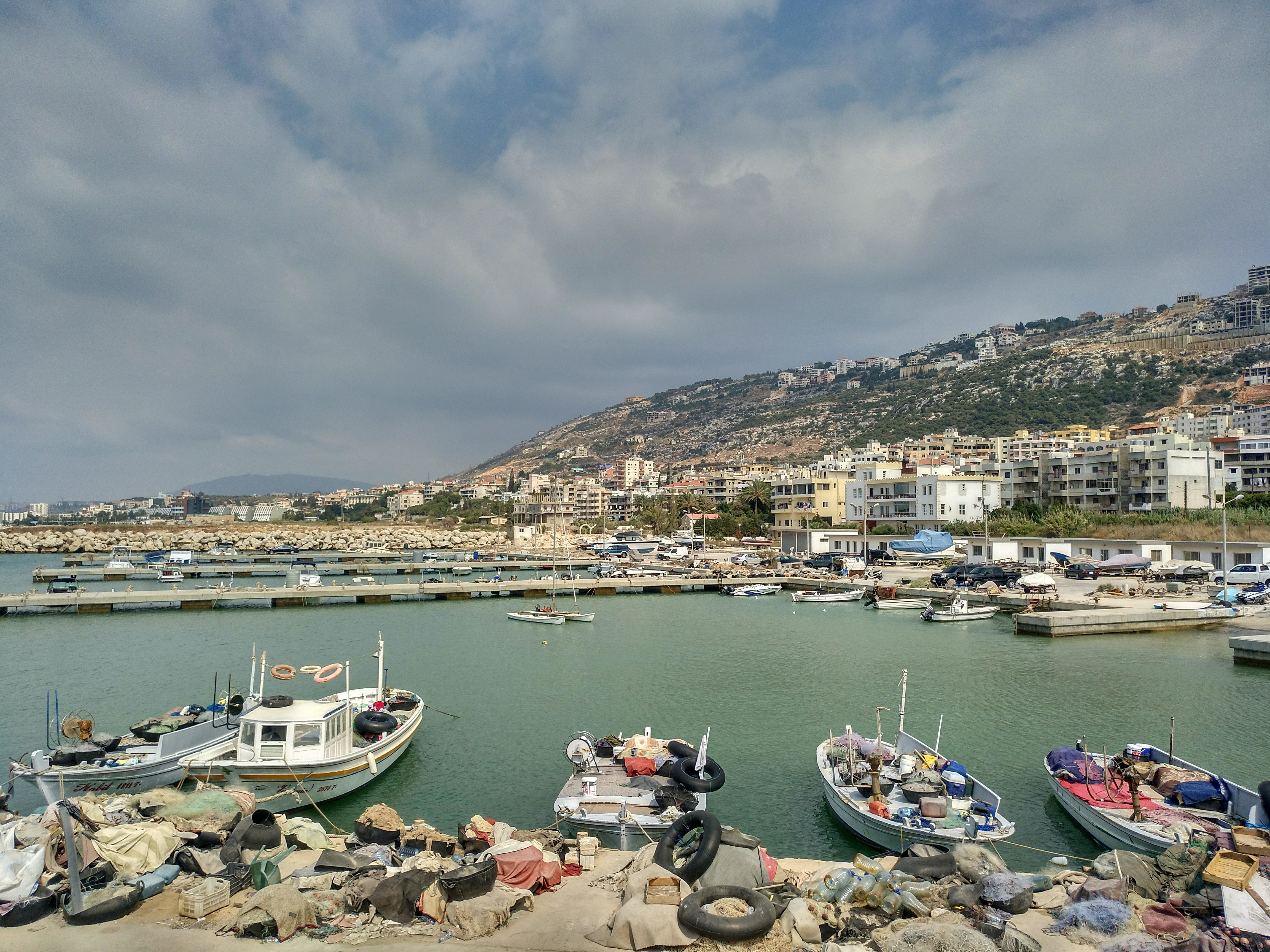 View of Al-Qalamoun's port, Lebanon